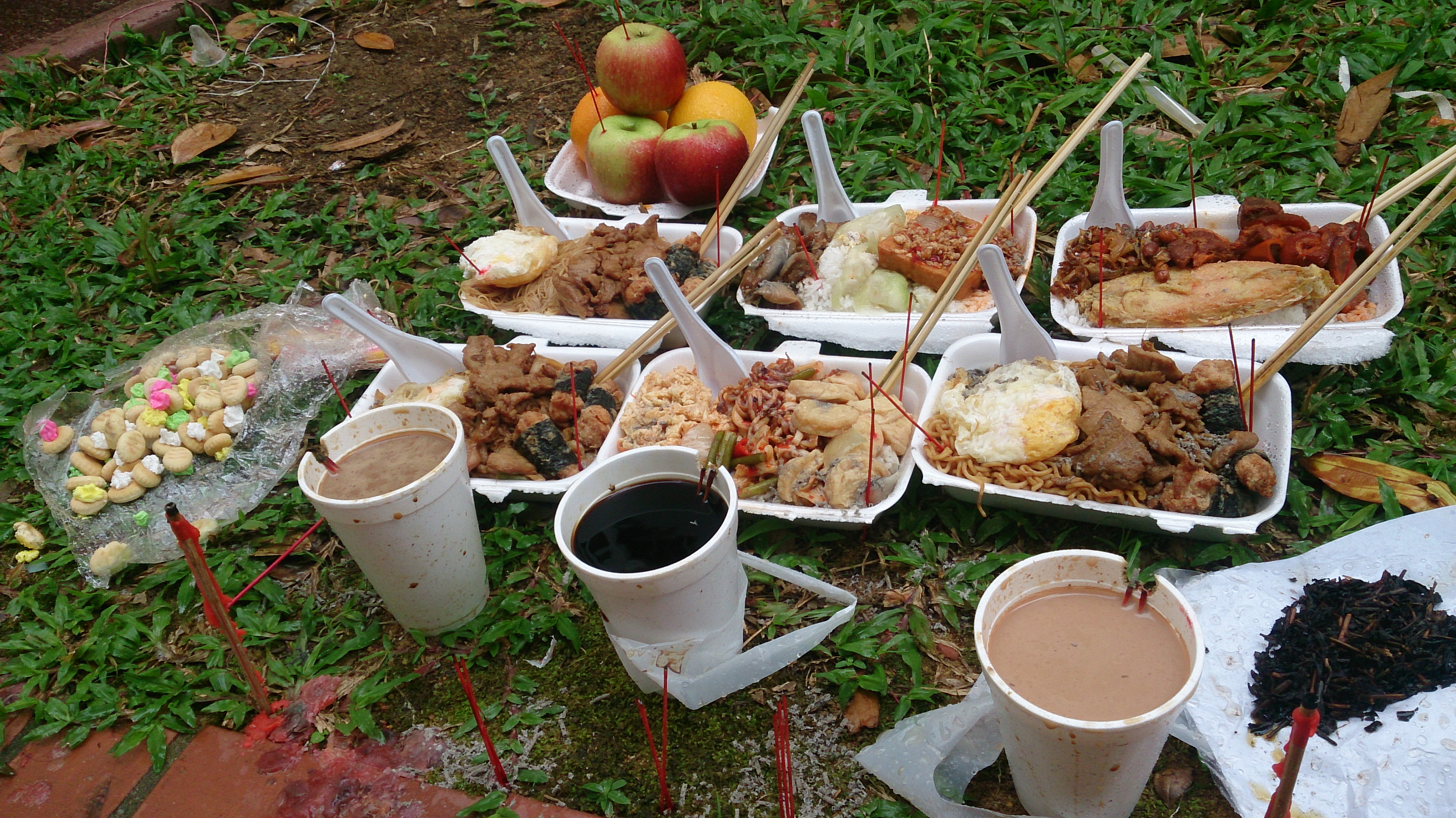 7th Month offerings to hungry ghosts in Singapore